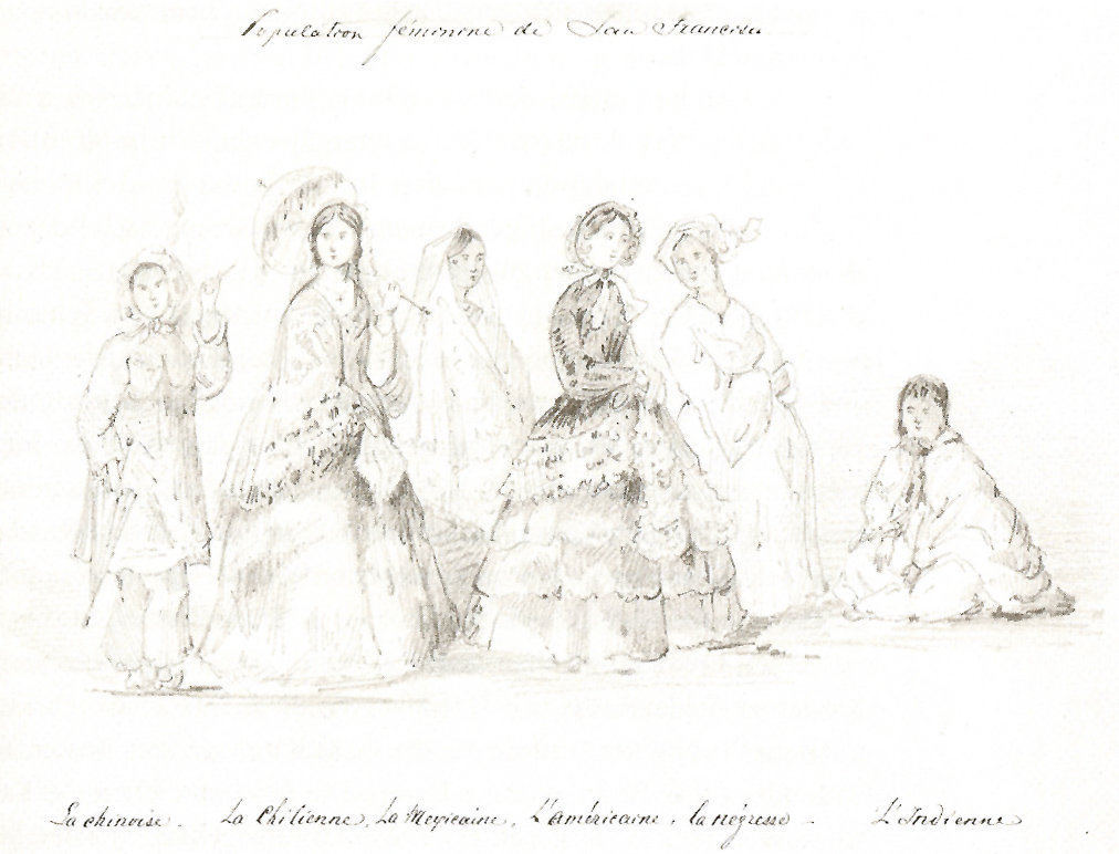 Drawings of women in San Francisco, about 1852. text in image (translated from the French): "the Chinese, the Chilean, the Mexican, the American, the blacks, the Indian"